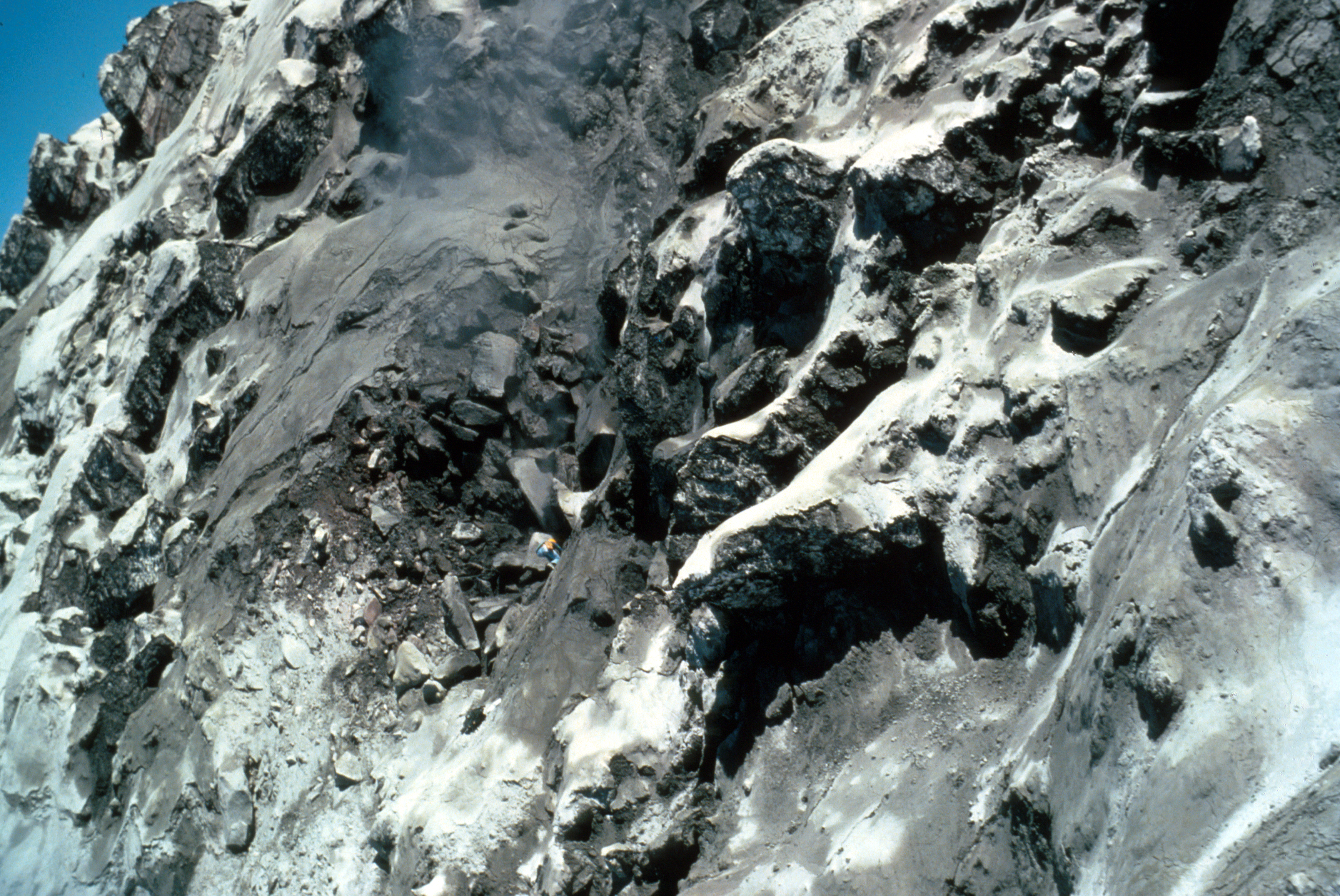 View from helicopter of David Johnston near crest of the bulge on the north side of Mount St. Helens, sampling gases from fumaroles. David is near the center of the picture. Skamania County, Washington. May 17, 1980.